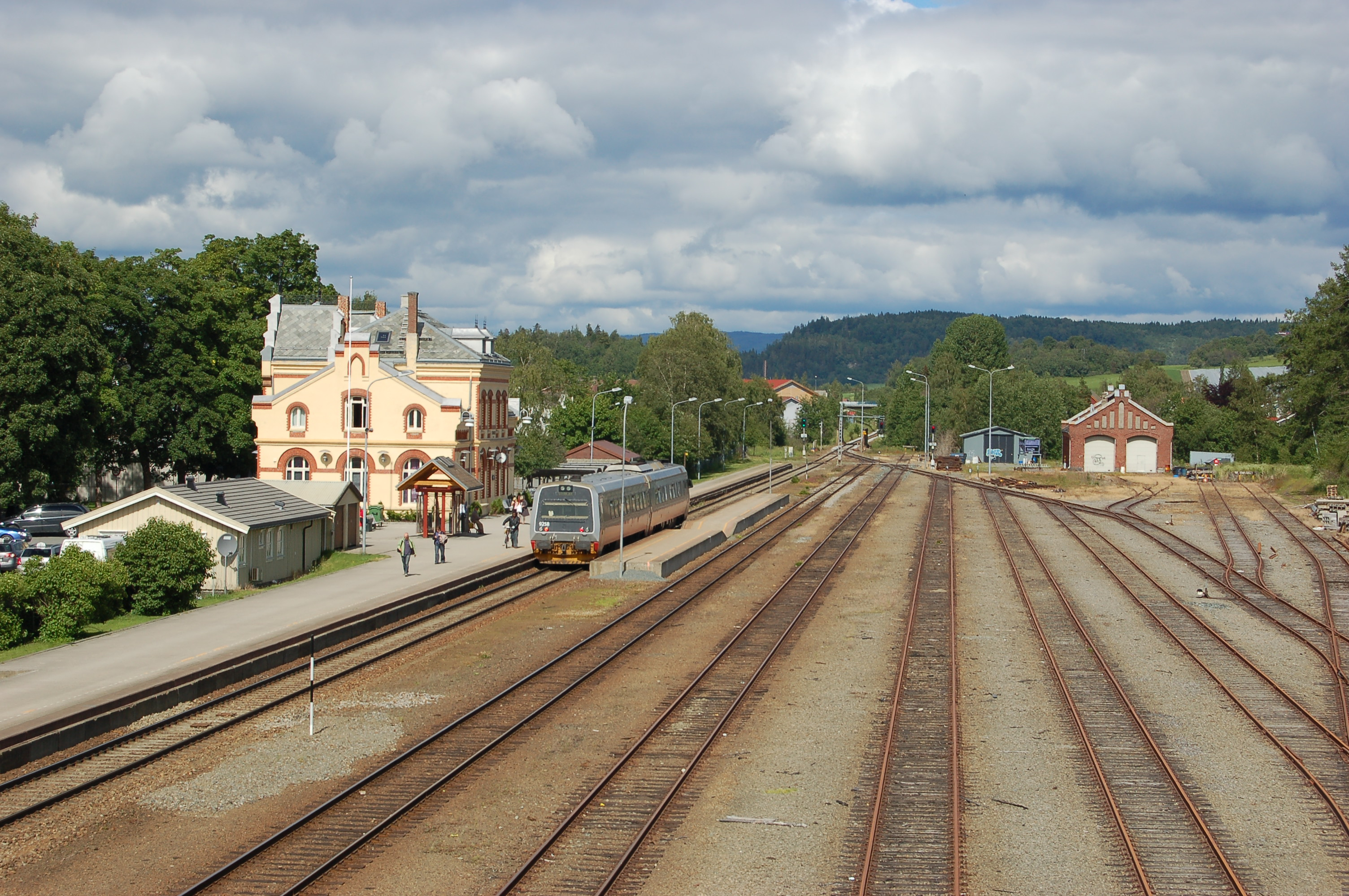 Levanger Station on Nordlandsbanen in Levanger, Norway; NSB Type 92 diesel multiple unit commuter train.